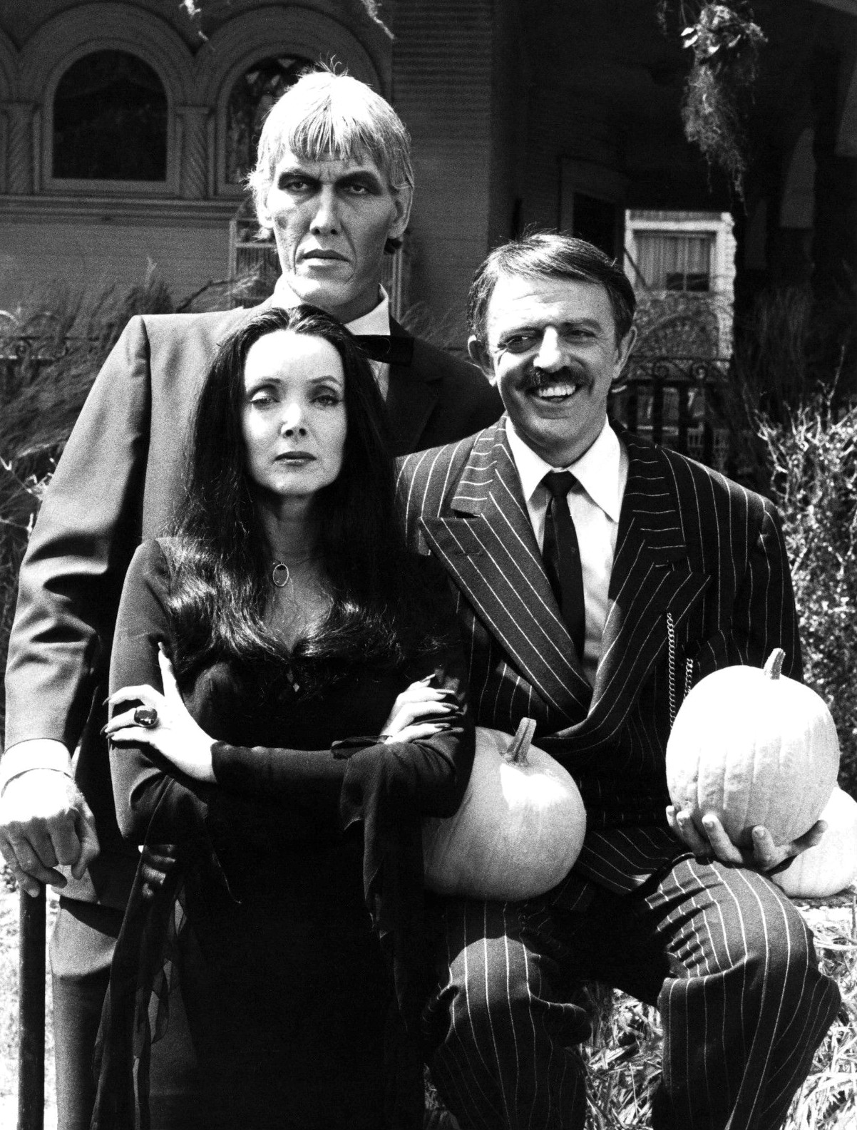 Photo of the main cast of the television program The Addams Family. From left-Ted Cassidy (Lurch), Carolyn Jones (Morticia) and John Astin (Gomez). In 1977, NBC reunited the original cast of the series for a Halloween Big Event Special. This photo is from the special.